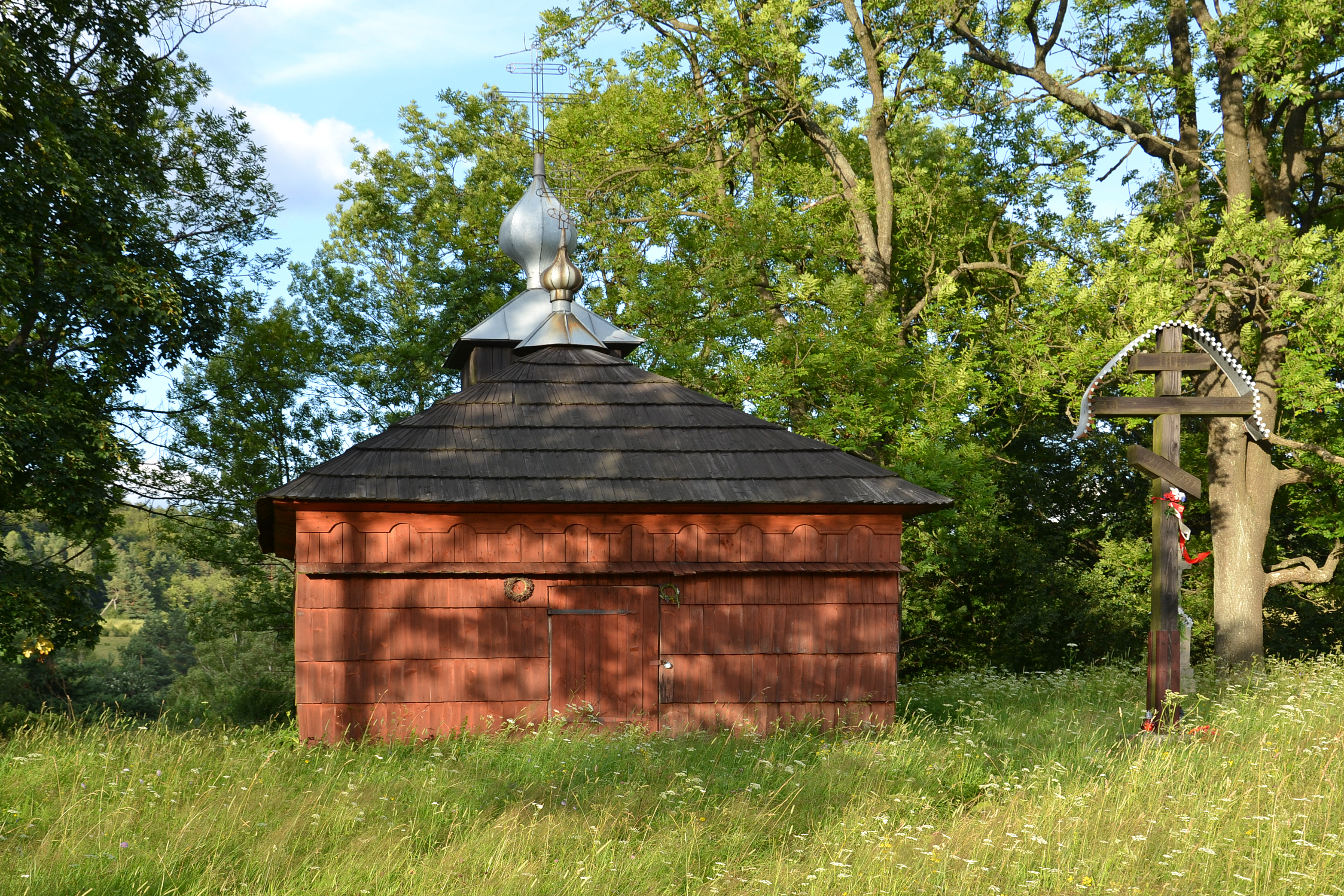 Saint Nicholas chapel in Regietów Wyżny (Рeґєтiв), Poland